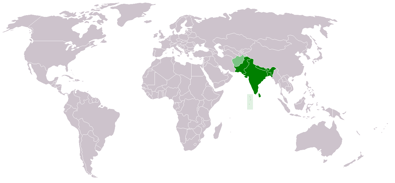 Location of South Asia, made from Image:BlankMap-World.png.